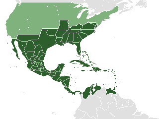 Map of the Golden Circle with its possible subdivisions. The rest of the United States is in light/pale-green because the Knights of the Golden Circle originally planned to have the US take over these areas.